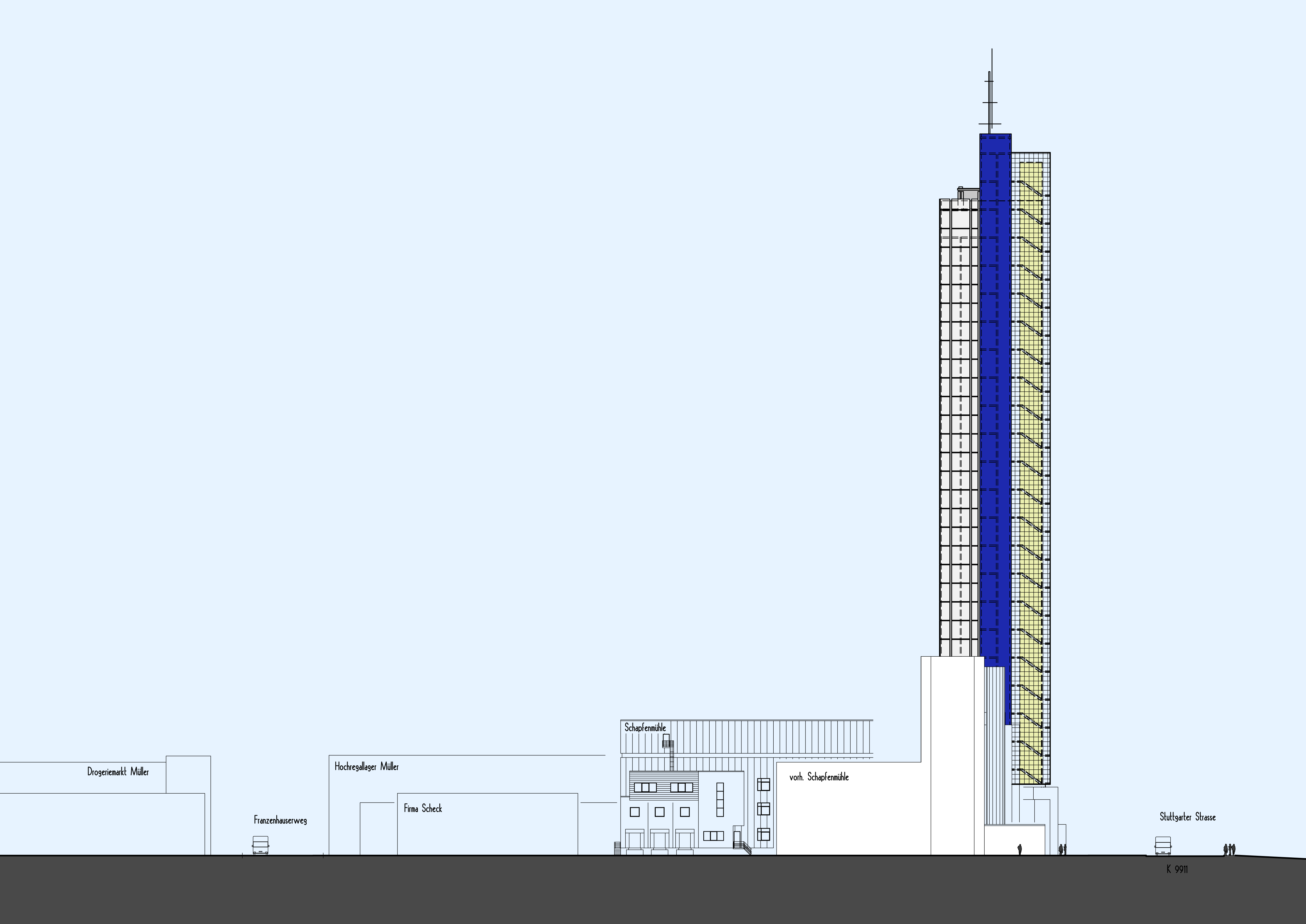 North face of the 115m high Schapfenmühle's silo in Ulm, Germany